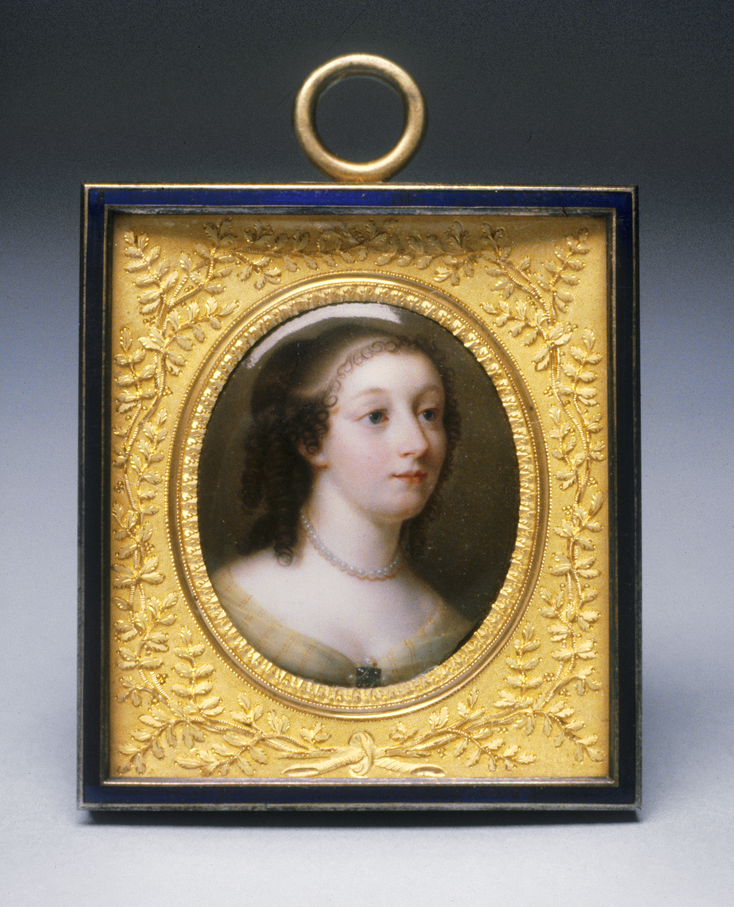 Petitot was a major French portraitist in painted enamel who learned the technique from Toutin. He was active at the English court until the execution of King Charles I in 1649. Petitot then offered his services to Louis XIV, and it is for portraits of the French king and his court that he is best known. His enamels, with their refined detailing, soft modeling, and polished surfaces, suited the court's taste and had many imitators. Enamel was considered to be an improvement over oil or tempera for miniatures: the hard, lustrous surface was more durable, in keeping with the character of jewelry or other luxury objects to which they could be applied.